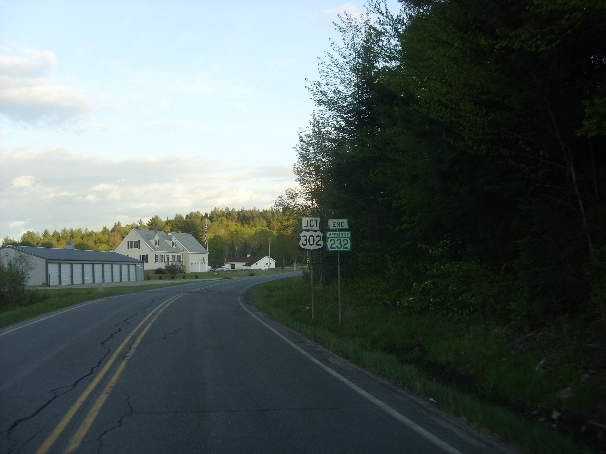 Vermont State Route 232 approaching the junction with U.S. Route 302 in the town of Groton, Vermont.